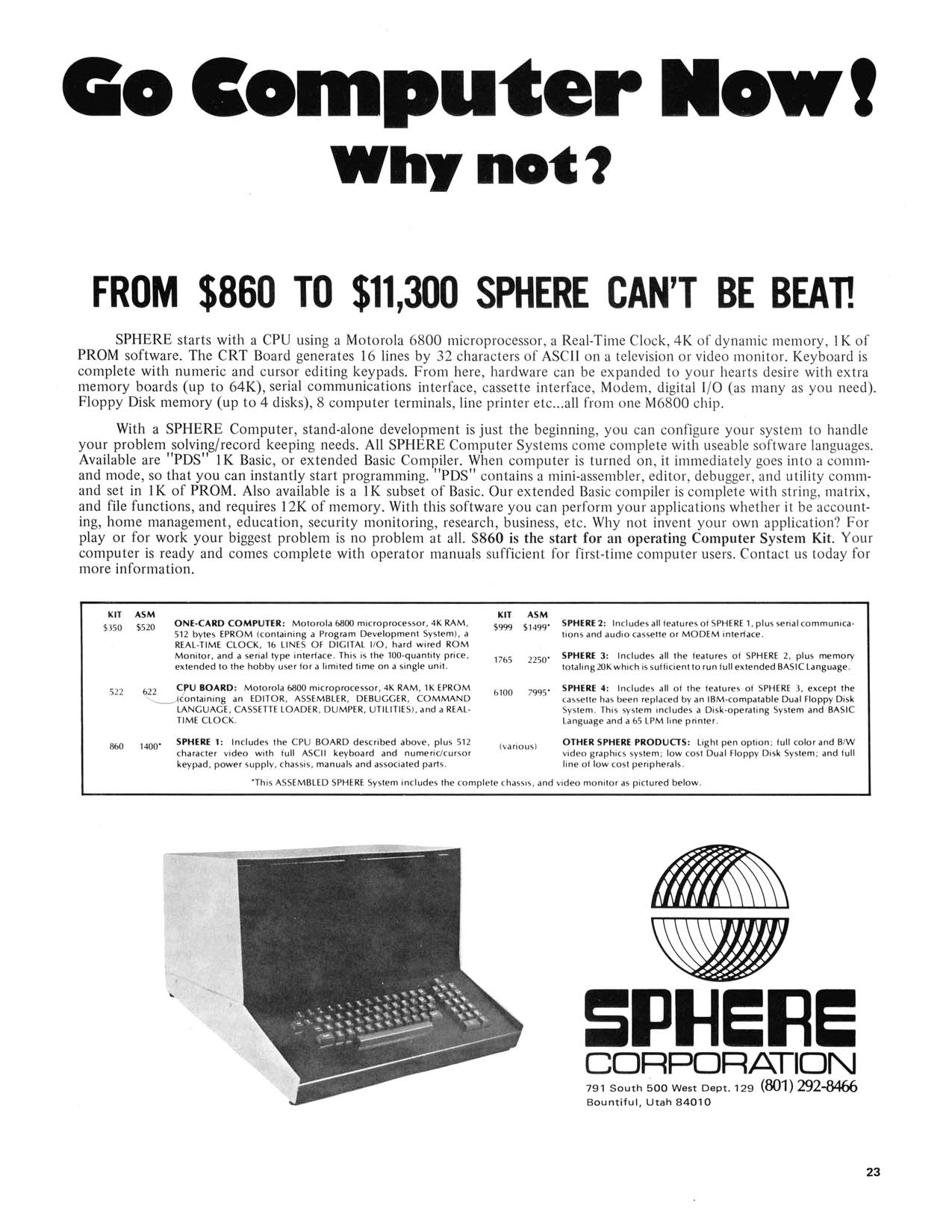 Sphere Corporation was an early personal computer company located in Bountiful, Utah. The Sphere computer used a Motorola 6800 microprocessor and first units were shipped in early November 1975. Sphere was a small company that had difficulty providing all of the products it promised and they ceased operations in April 1977. This advertisement is from the January 1976 issue of' Byte magazine (page 23).